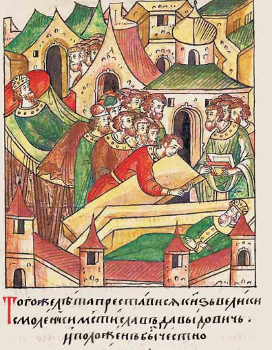 Death of Mstislav Davidovich of Smolensk